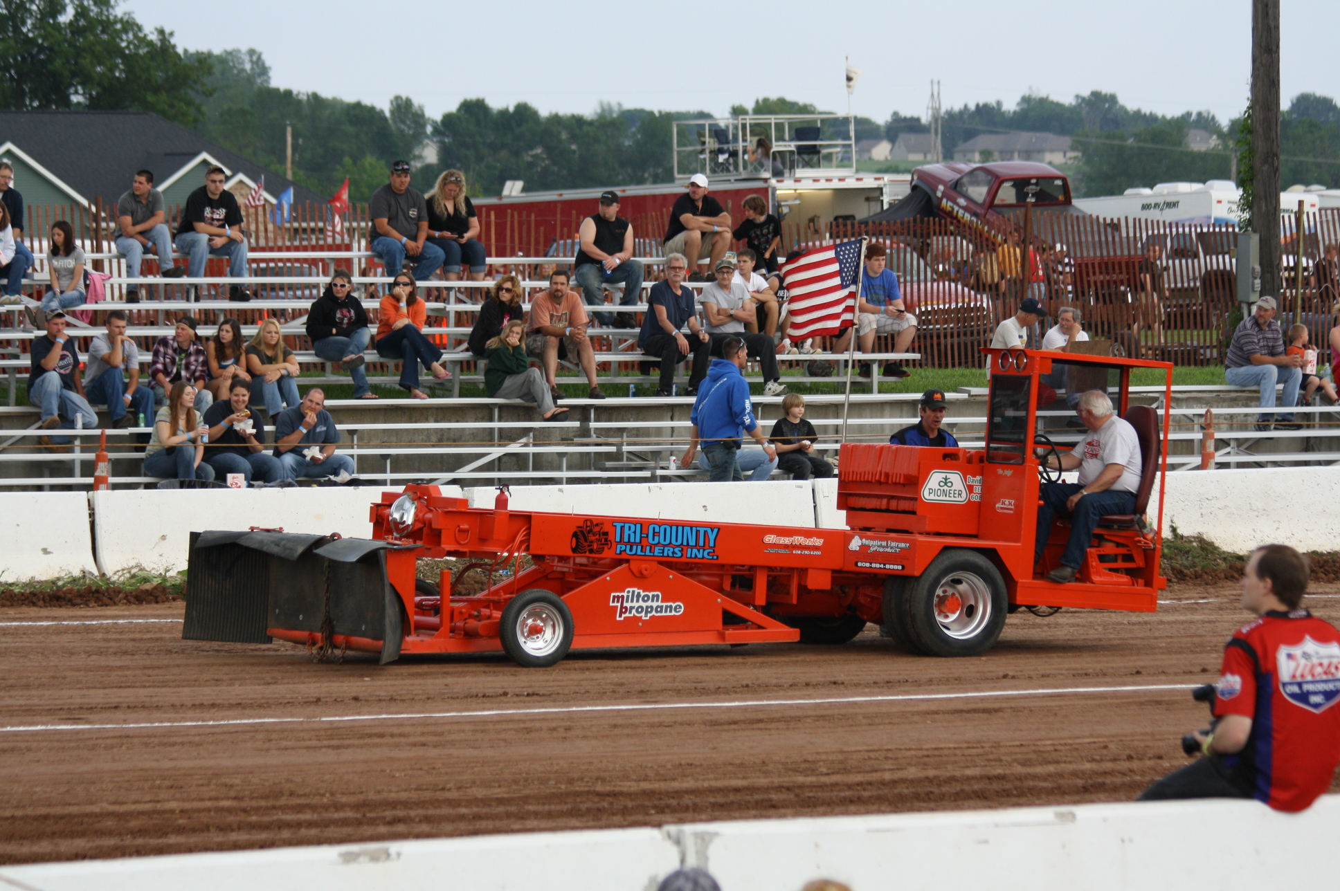 The smallest pull sled for the 2011 Mackville Nationals Truck & Tractor Pull in Mackville, Wisconsin.